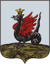 Kazan (Tatarstan), coat of arms (1781)